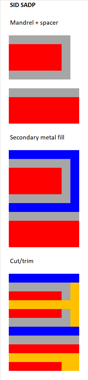 Spacer-is-dielectric (SID) self-aligned double patterning (SADP) can effectively reduce the pitch 3x using only two masks. The second mask is already accepted for line cutting.